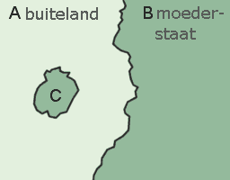 Graphic of an exclave (C) of (fictional) country A, which is an enclave in (fictional) country B.